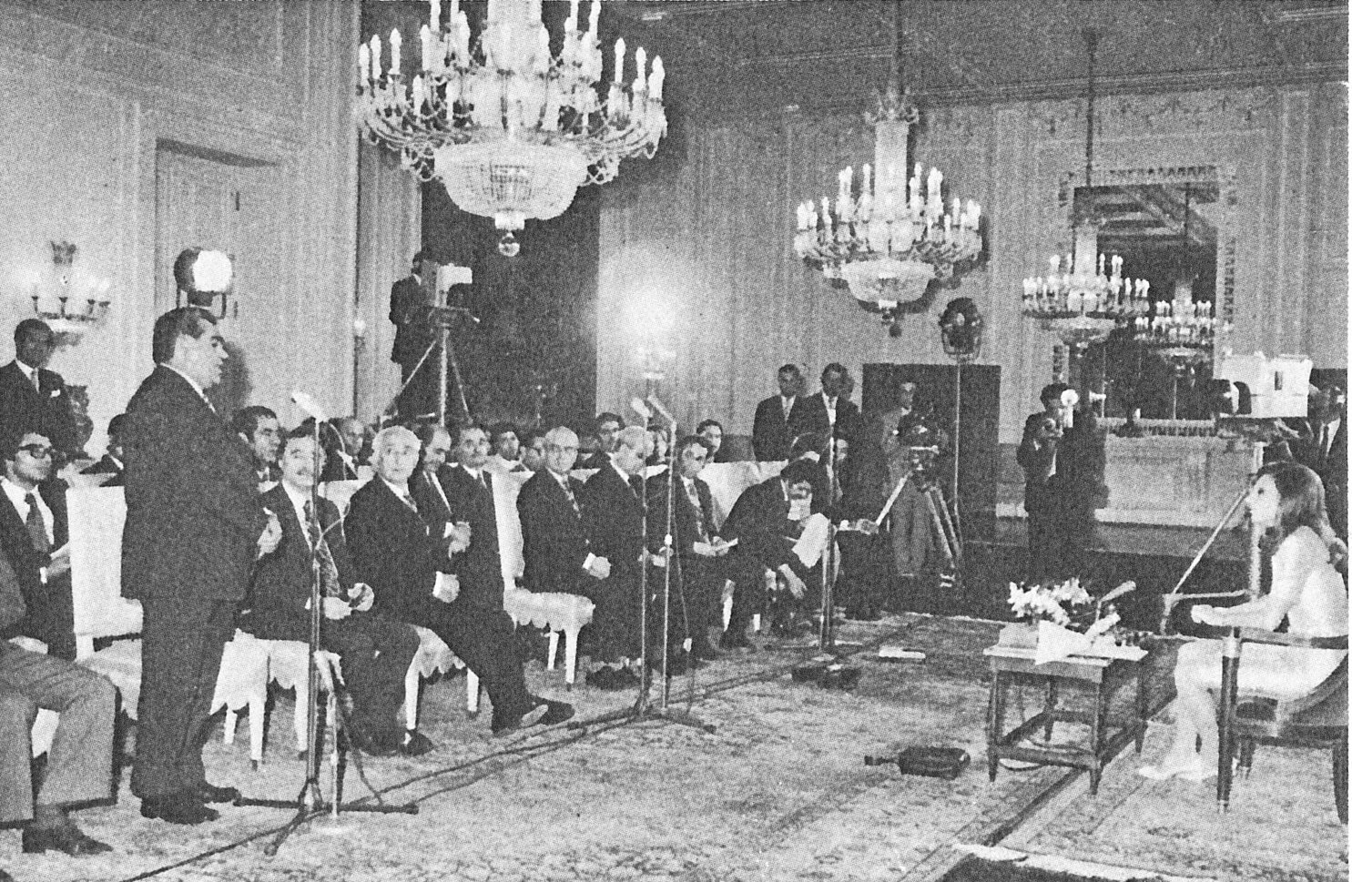 Farah Pahlavi press conference after a visit to Kerman, 1970